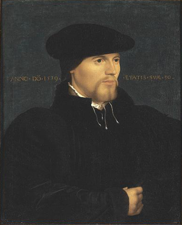 Portrait of a man in black, perhaps Sir Richard Cromwell (c.1510–1544), follower of Hans Holbein the Younger, c.1600